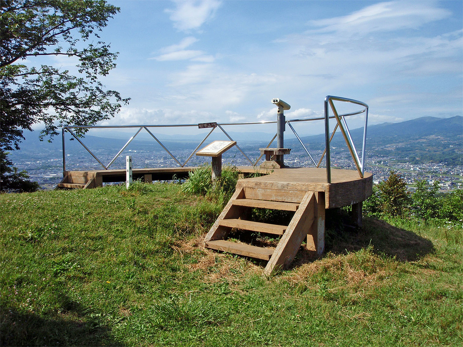 Observation deck on Mount Oarashi in Kannami, Shizuoka Prefecture.